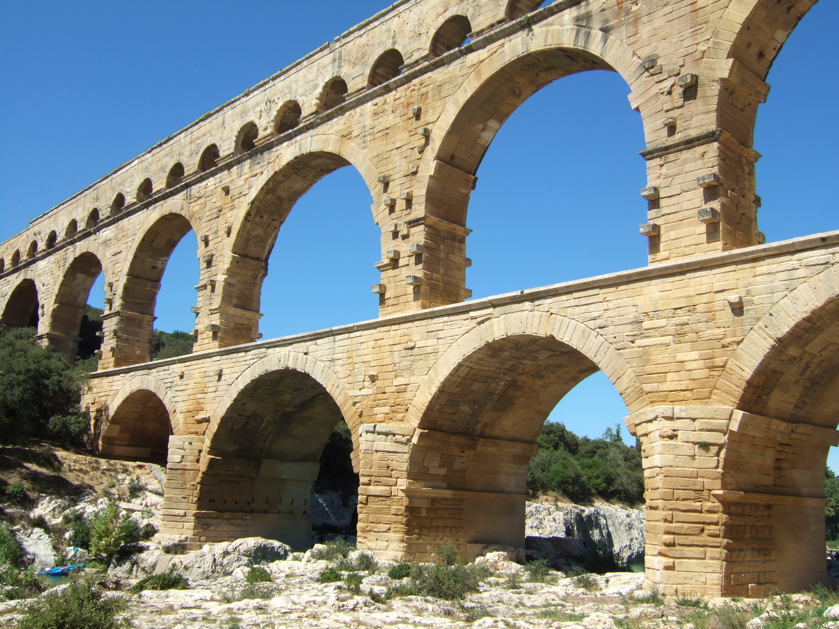 Photo of the Pont du Gard taken by me on holiday.